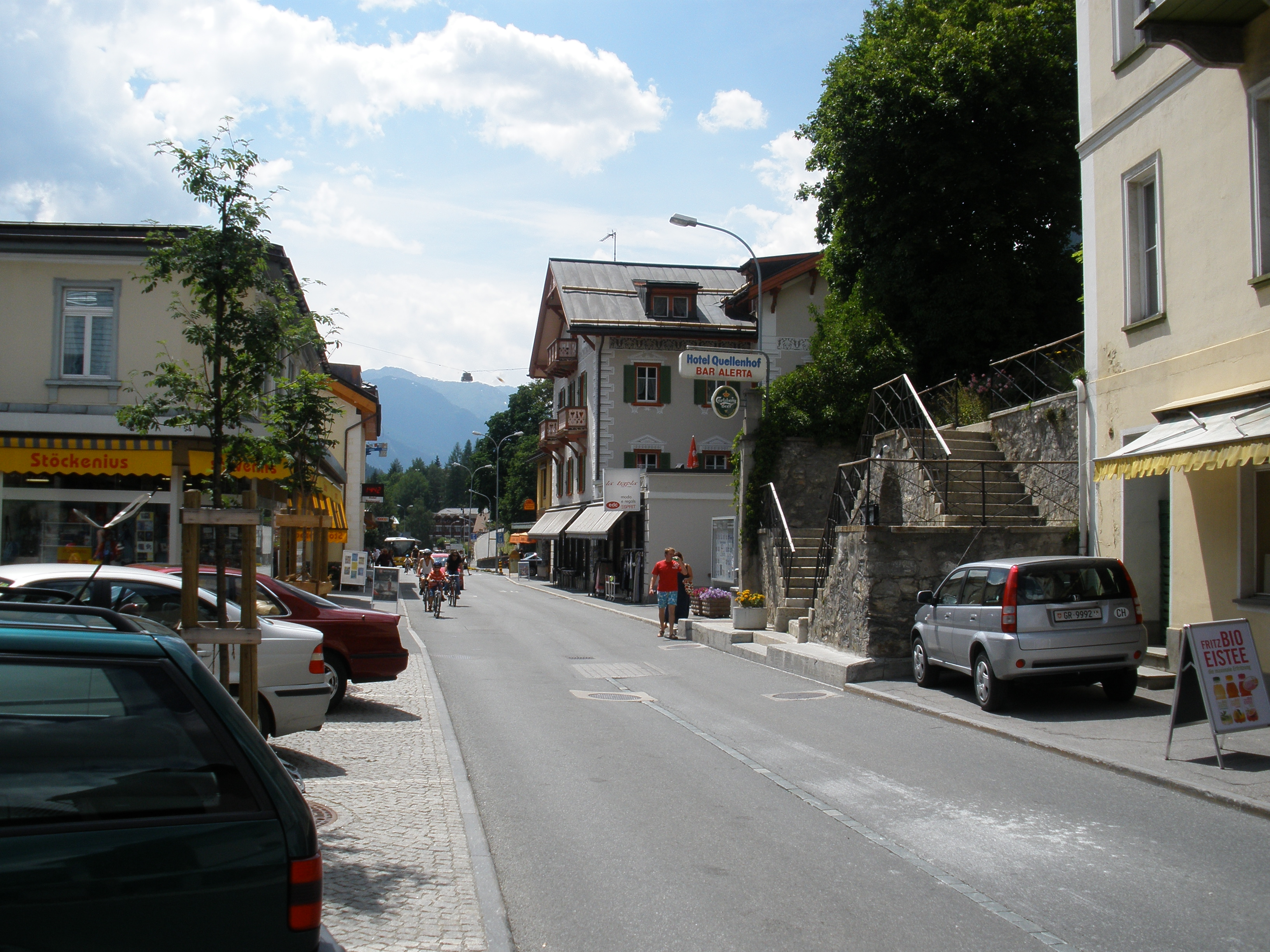 The Stradun, main street in Scuol, Graubünden, Switzerland.